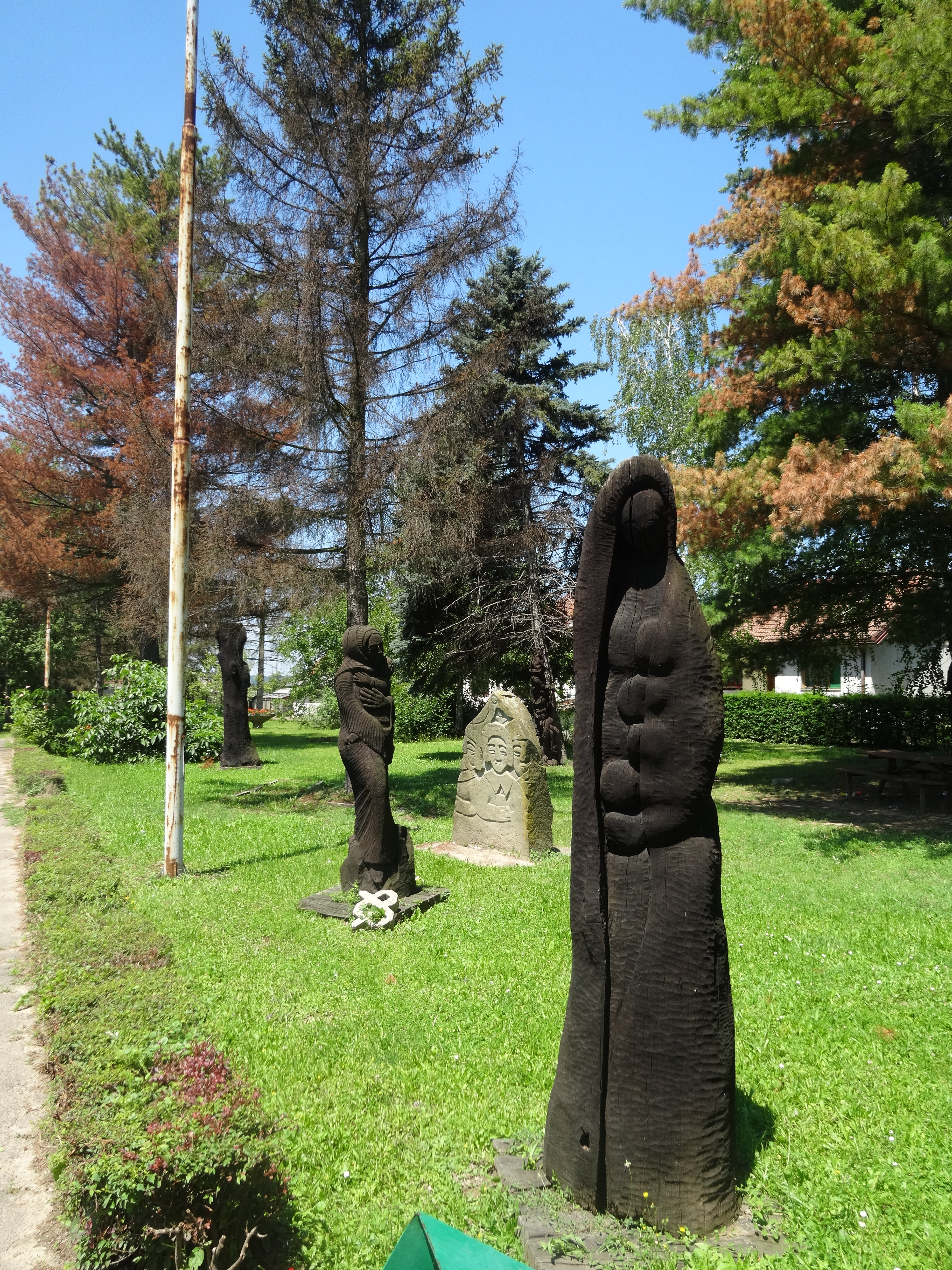 Dudovica, Elementary school Mihailo Mladenović Selja